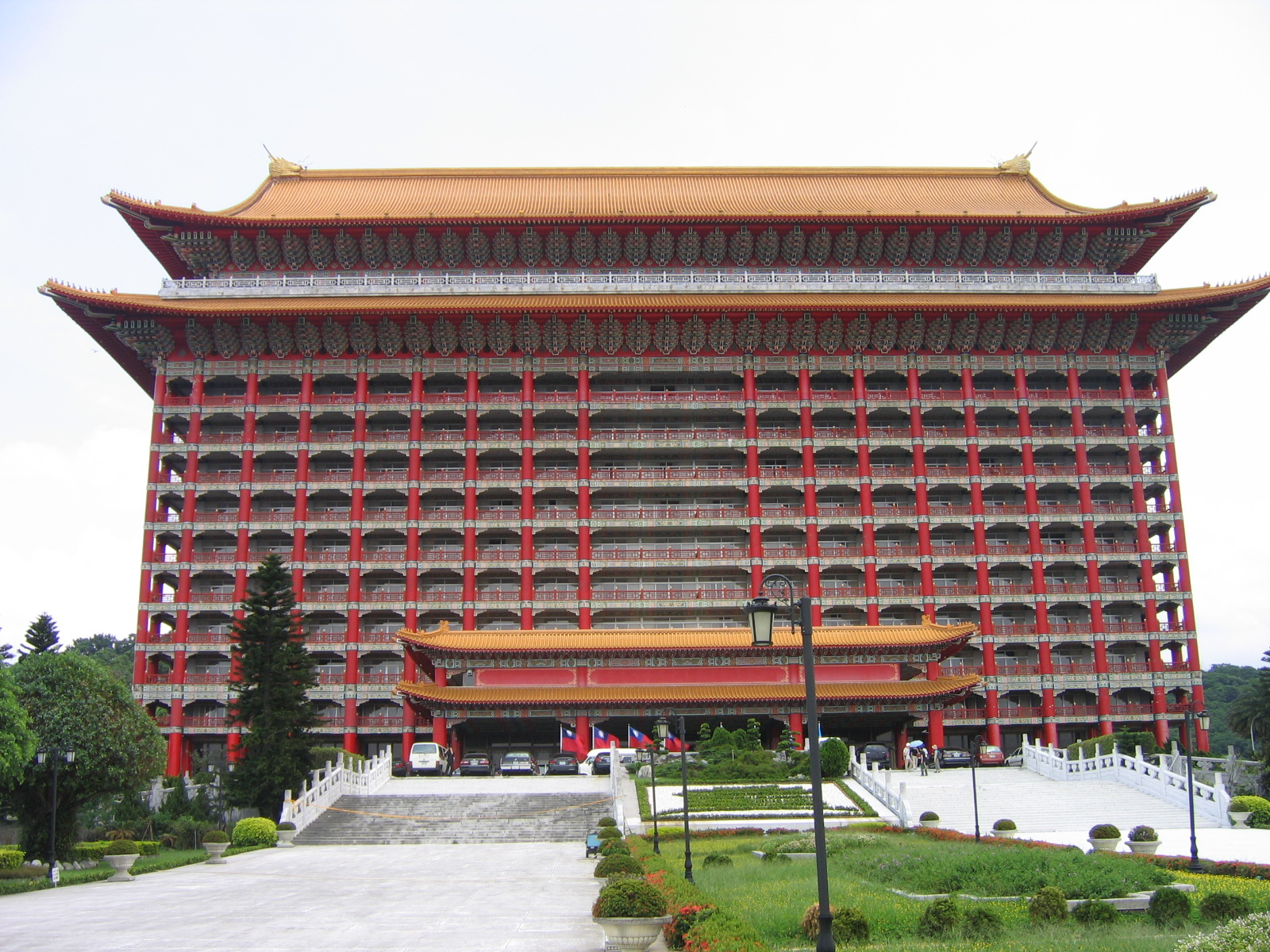 Grand Hotel Taipei